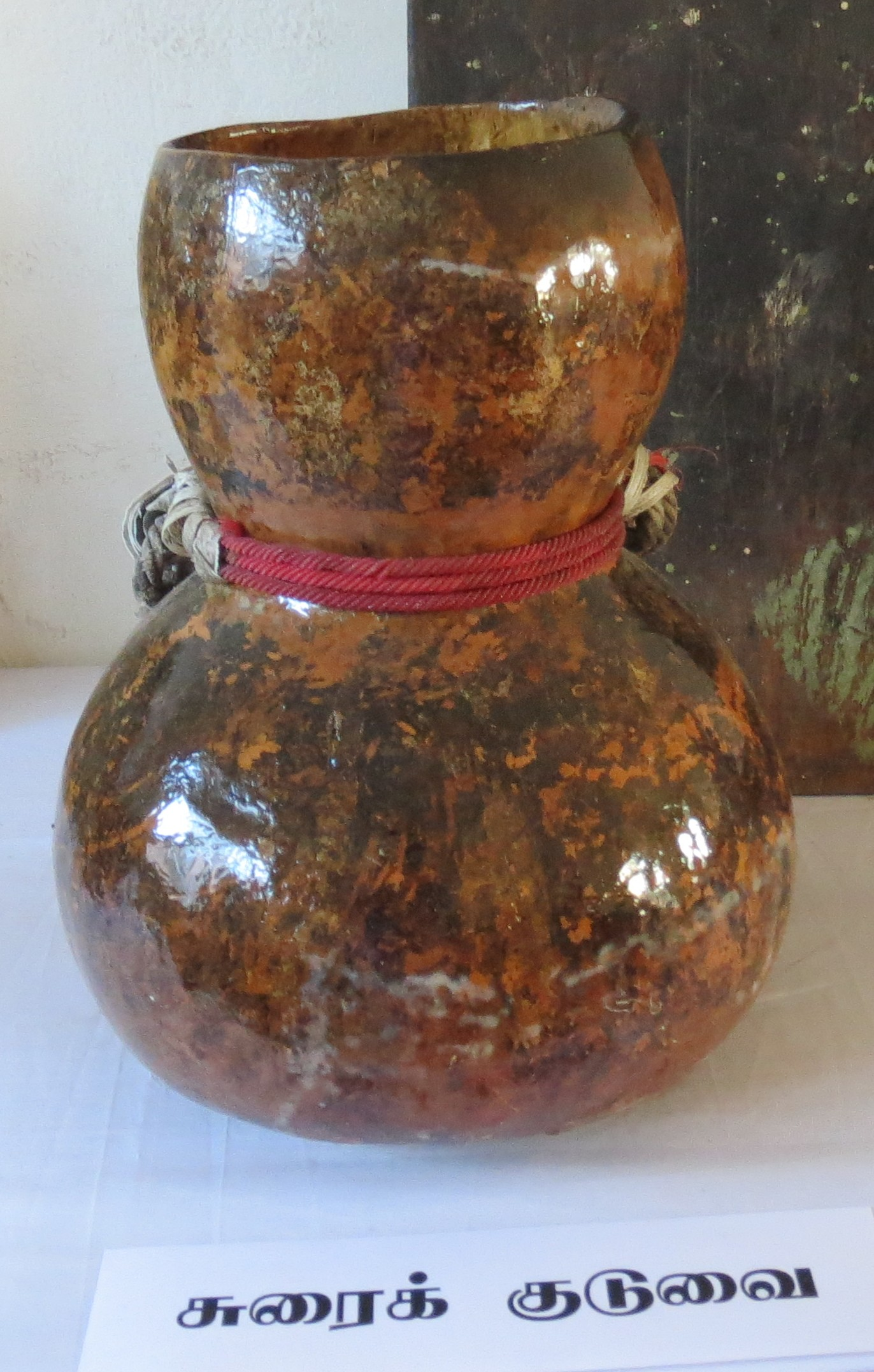 A hollow bottle gourd, seasoned and well polished and used as a container. Tamil: சுரைக்குடுவை- பதப்படுத்தி வர்ணம் பூசப்பட்ட சுரைக்காயின் வெளிக்கூடு.